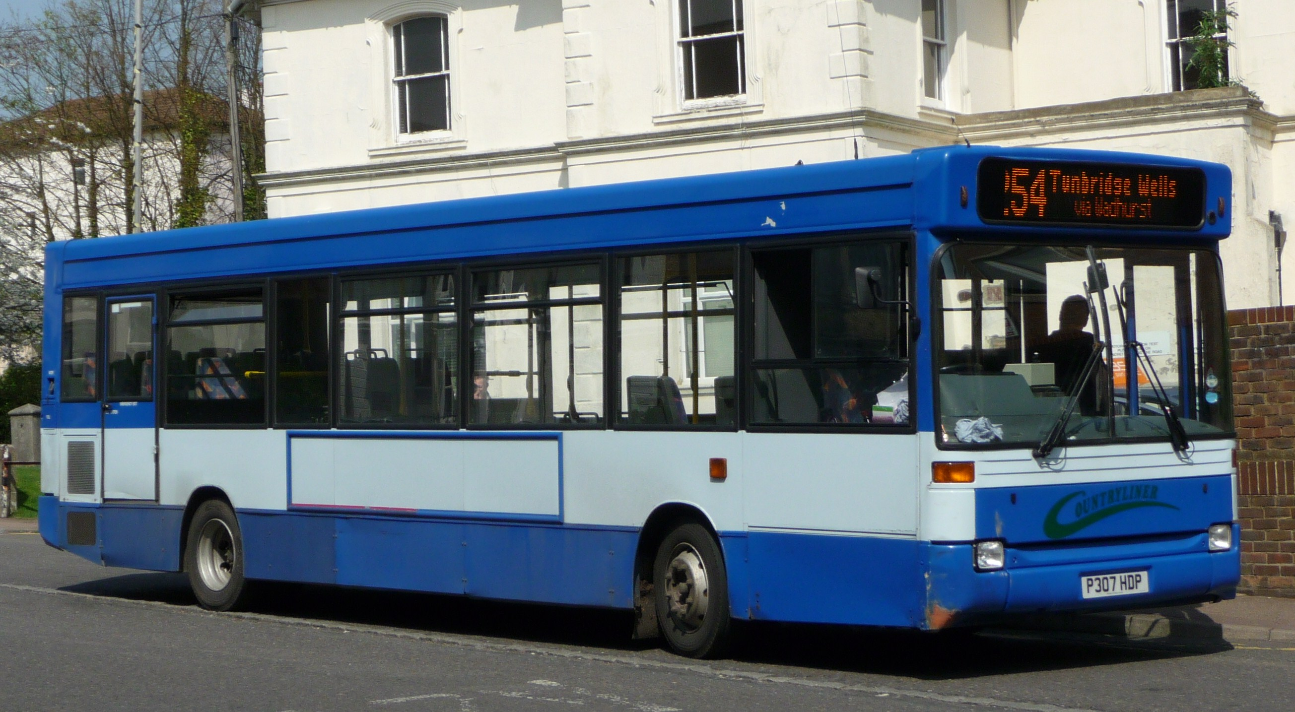 Countryliner Sussex DP42 (P307 HDP), a Dennis Dart SLF/Plaxton Pointer, in Meadow Road, Tunbridge Wells, on route 254. It is ex-Metrobus 307.